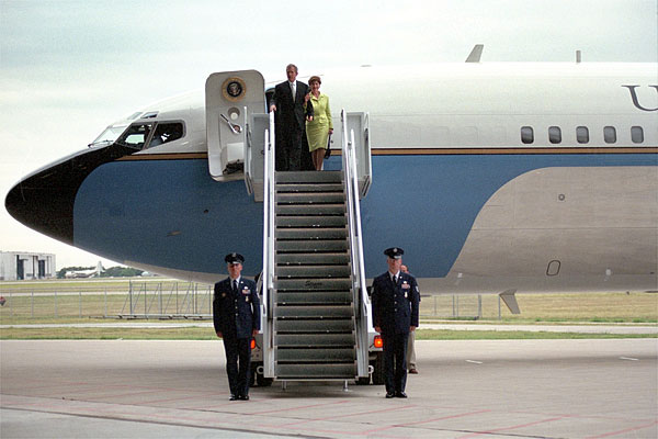 George W. Bush and Laura Bush at TSTC Waco Airport on August 29, 2001 at the the completion of the last Presidential trip aboard Air Force One model VC-137C SAM 27000. Official White House photo.